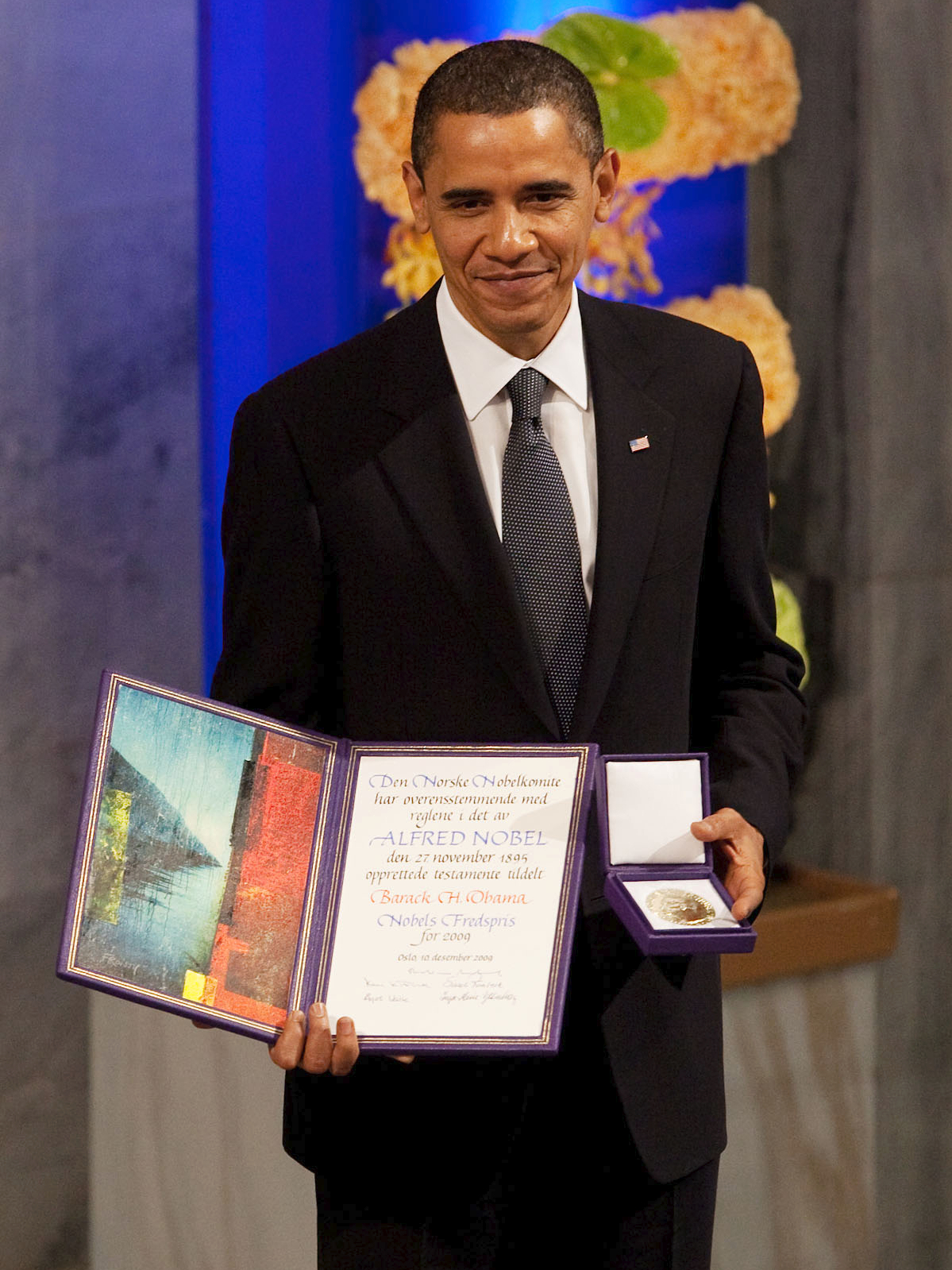 United States President Barack Obama with the Nobel Prize medal and diploma during the Nobel Peace Prize ceremony in Raadhuset Main Hall at Oslo City Hall in Oslo, Norway on 10 December 2009. Image has been cropped from original. The diploma reads (in English): "The Nobel Committee of the Norwegian Storting has, in accordance with the terms of the will set up by Alfred Nobel on the 27th of November 1895, awarded Barack H. Obama the Nobel Peace Prize for 2009."